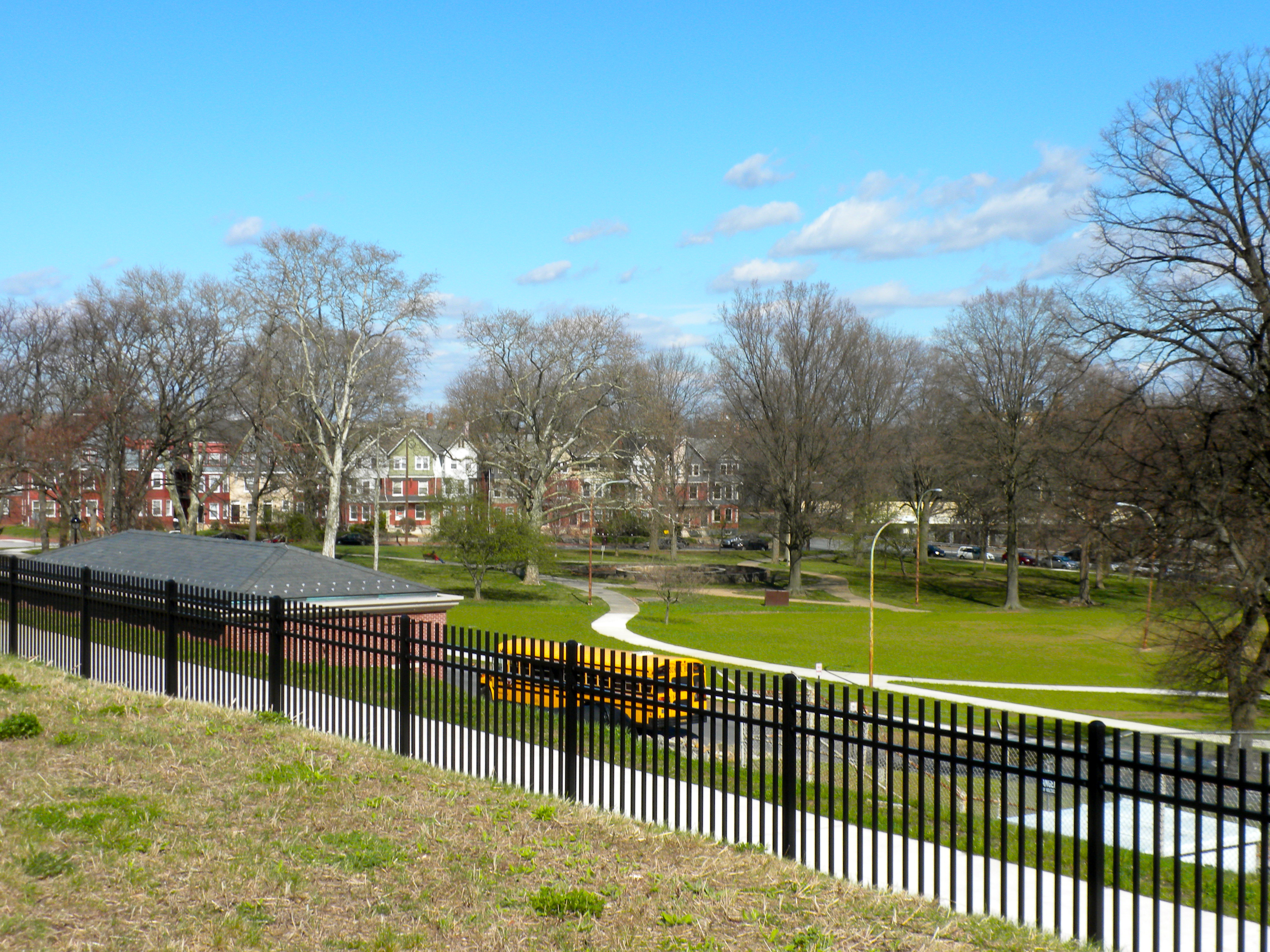 Cool Spring Park Historic District on NRHP since December 27, 1983. Historic District is bounded by Park Pl., Jackson, Van Buren, and 10th Sts. (same as the park). The Cool Spring Reservoir was/is just north of the park, and with a new underground reservoir a new park was created there - I believe it is confusingly called "Cool Spring Reservoir Park", but this is the old park - with the camera located in the new one! in Wilmington, Delaware